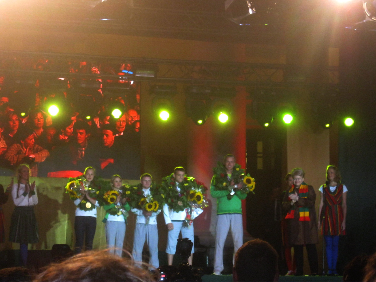 Lithuania at the 2012 Summer Olympics - Olympians greeting in Vilnius